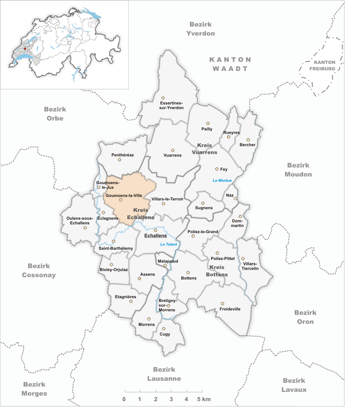 Municipality Goumoens-la-Ville